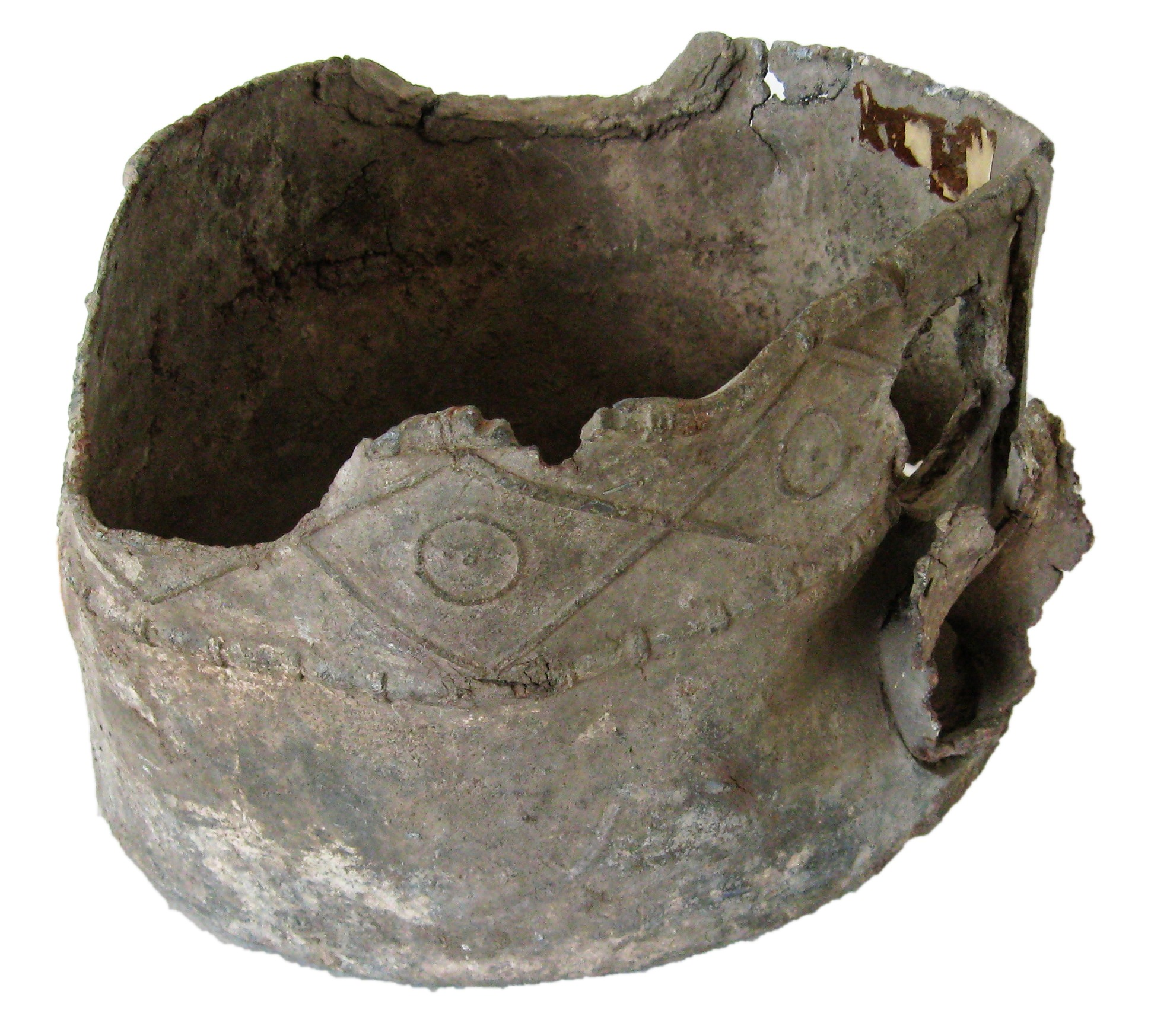 Roman water distributor made of lead; found in Contiomagus